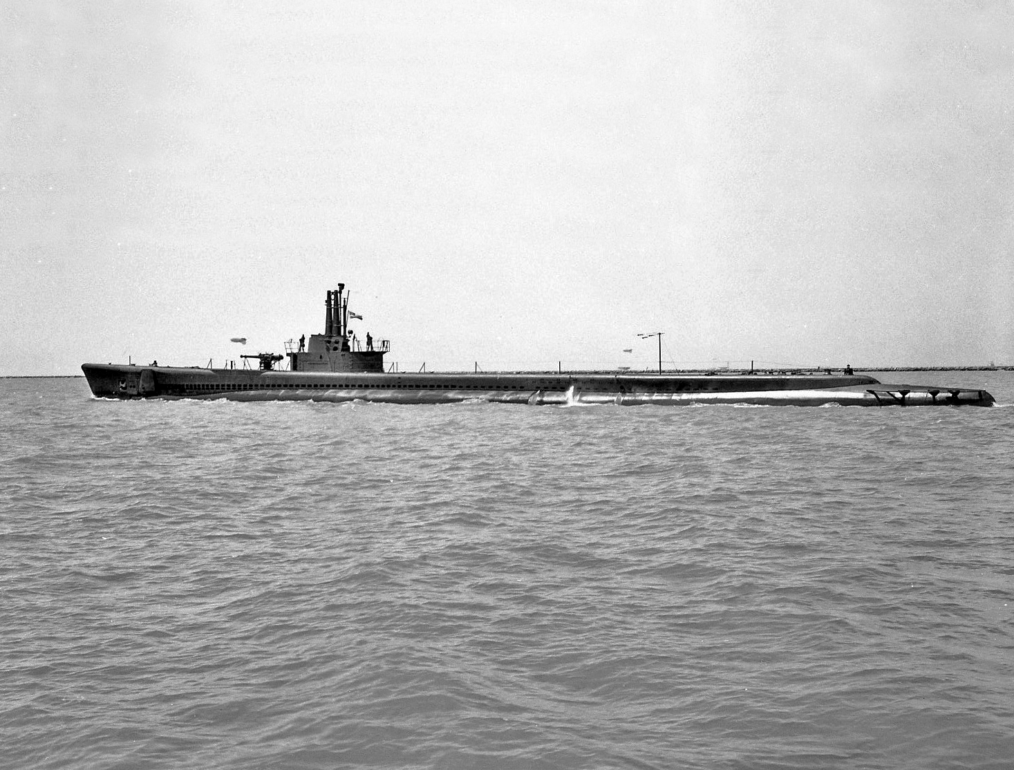 The U.S. Navy submarine USS Skate (SS-305) underway off the Mare Island Naval Shipyard, California (USA), on 28 July 1943.